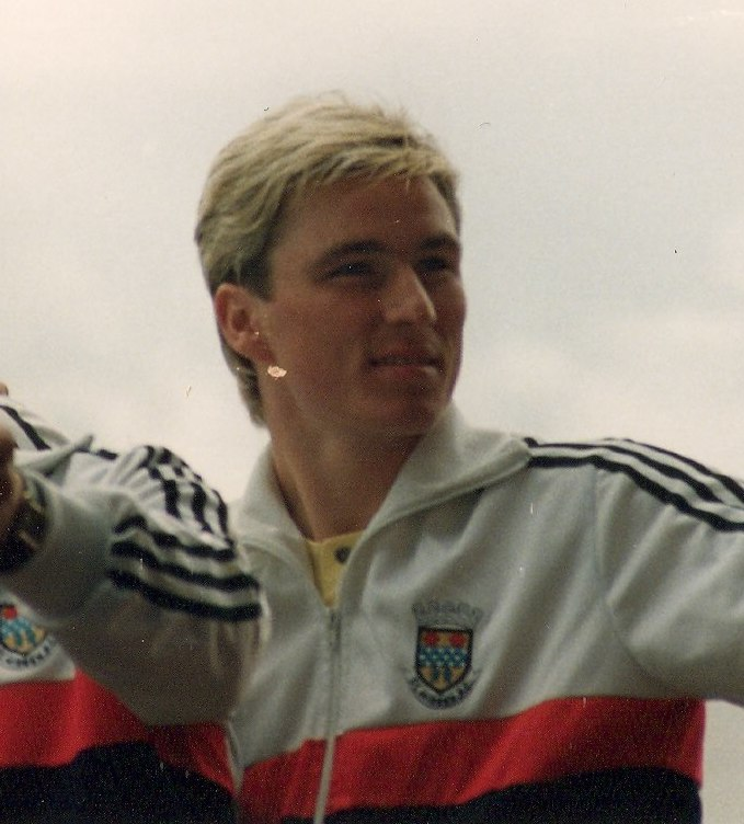 Ian Ferguson At St Mirren Park, Paisley, the day after St Mirren won the 1987 Scottish Cup